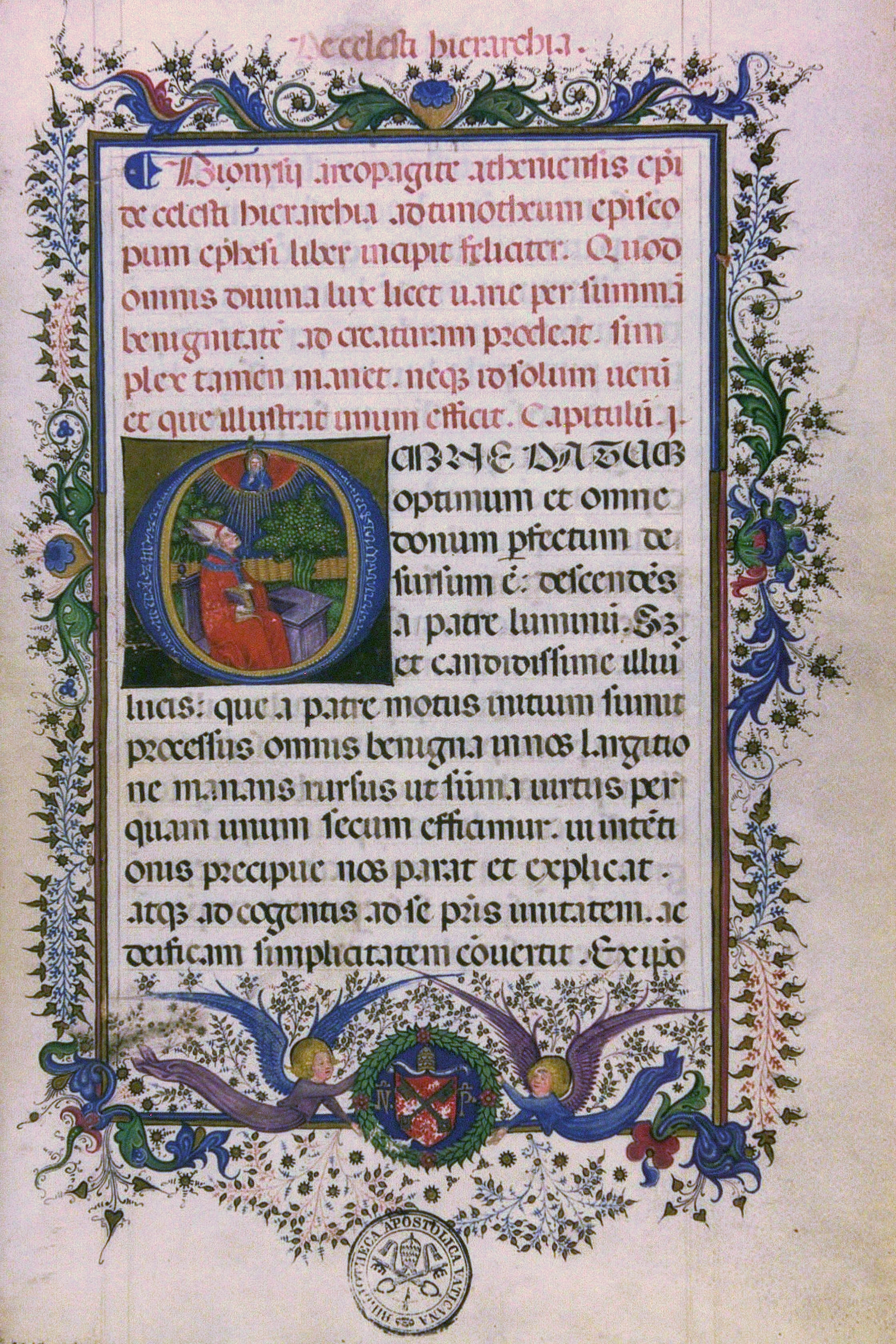 The beginning of Ambrose Traversari’s Latin translation of the Pseudo-Dionysian “Celestial Hierarchy” in the manuscript Vatican City, Biblioteca Apostolica Vaticana, Vat. lat. 171, fol. 1r.